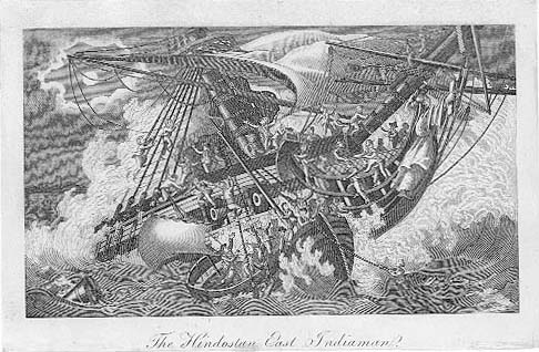 Engraving of the wreck from a book of engravings. It is a reproduction of a coloured acquatint published by John Fairburn on 31 January 1803